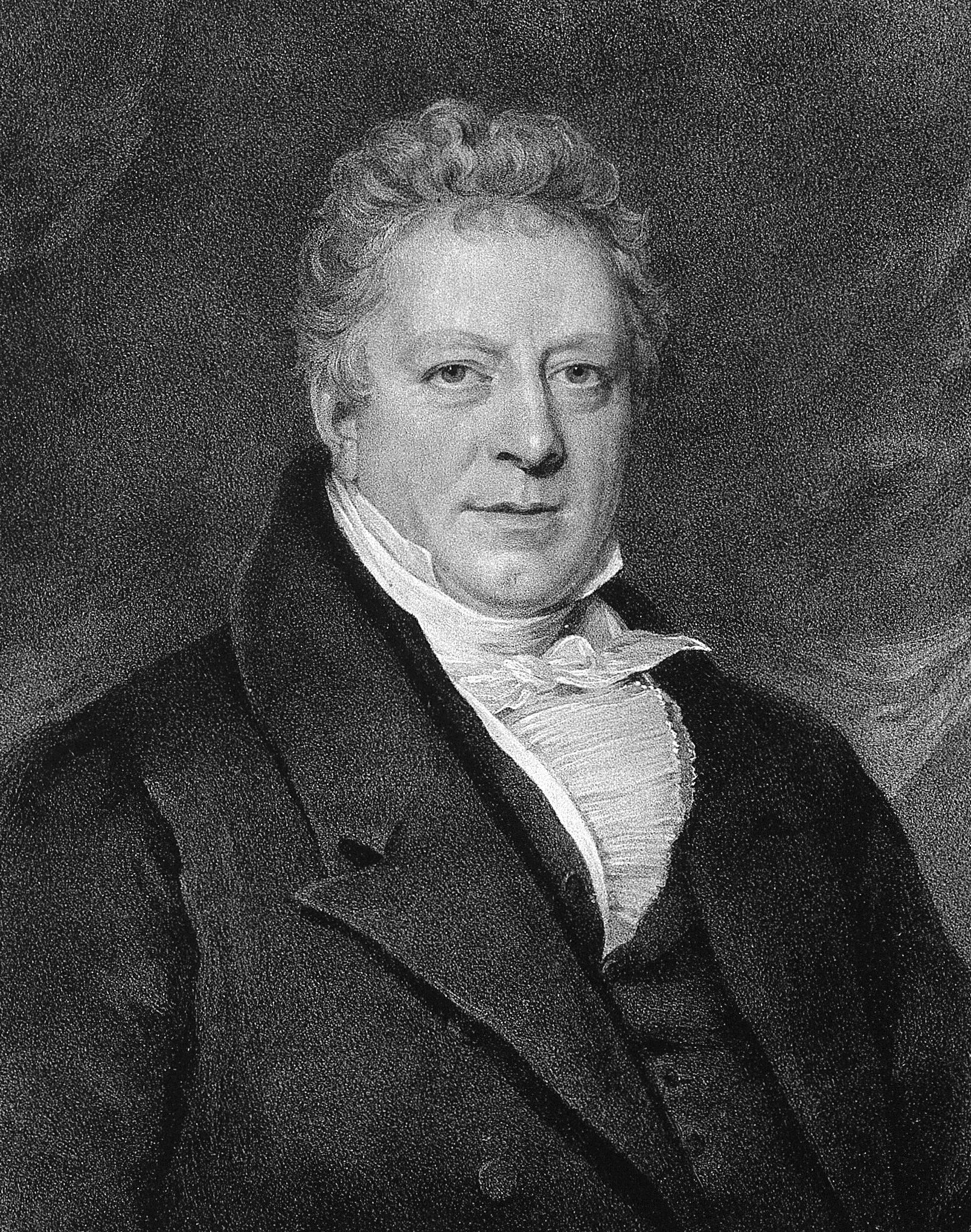 Iconographic Collections